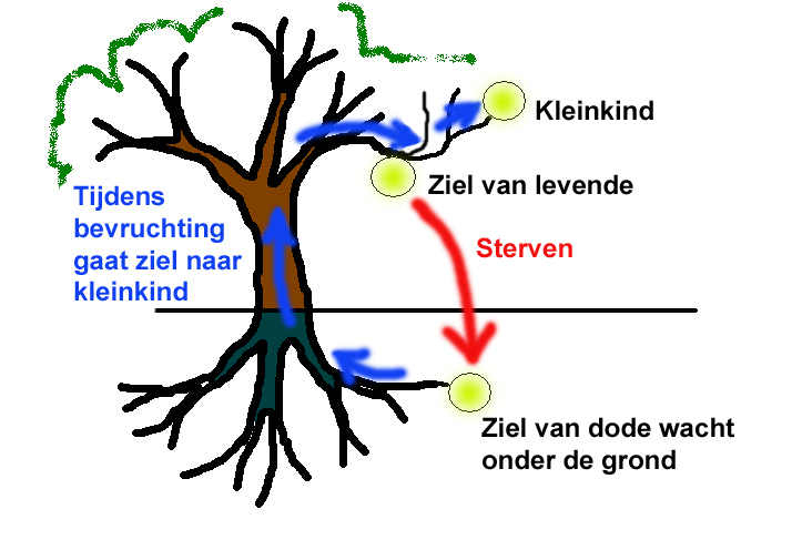 Tree of life, illustrating the circel of life